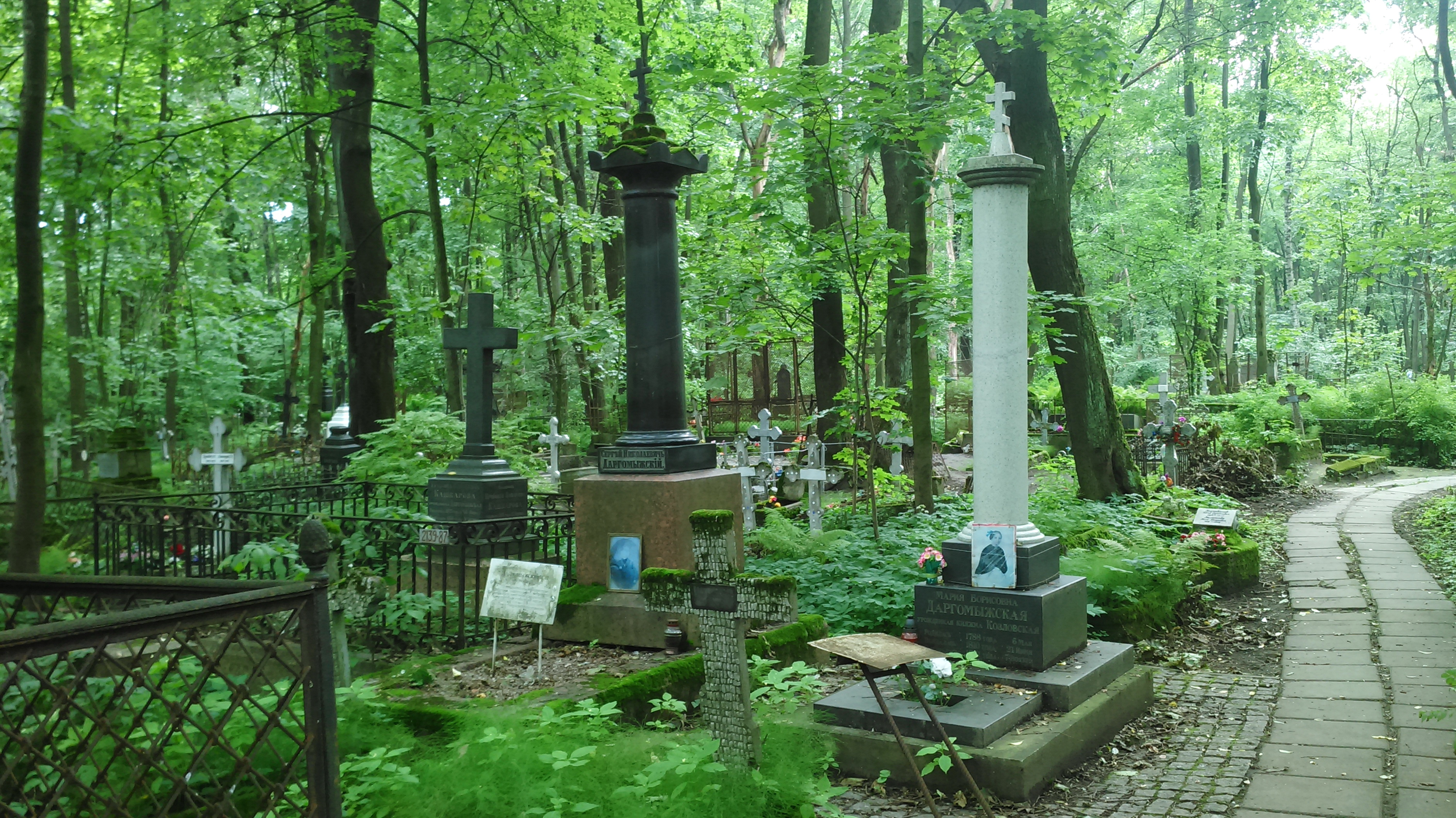 Dargomyzhsky's burial at the Smolensk Orthodox cemetery